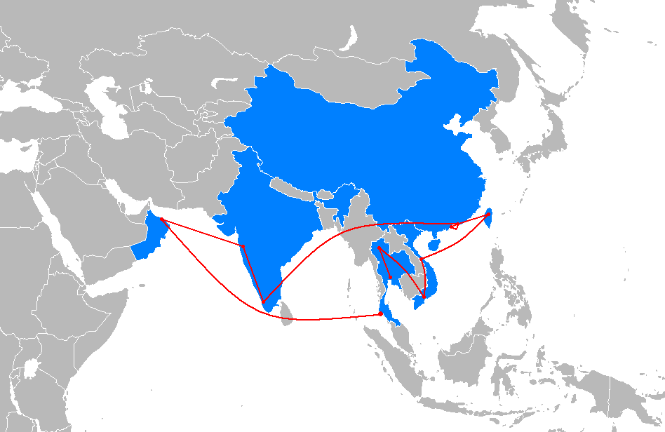 Map of The Amazing Race Asia 3